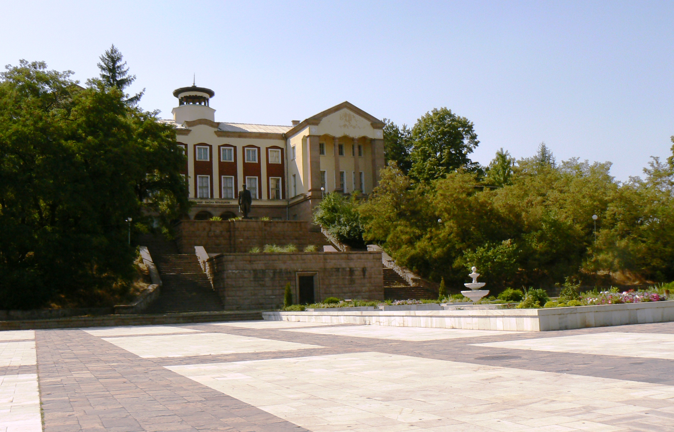 Library "Vasil Petleshkov" in Bratsigovo, Bulgaria.